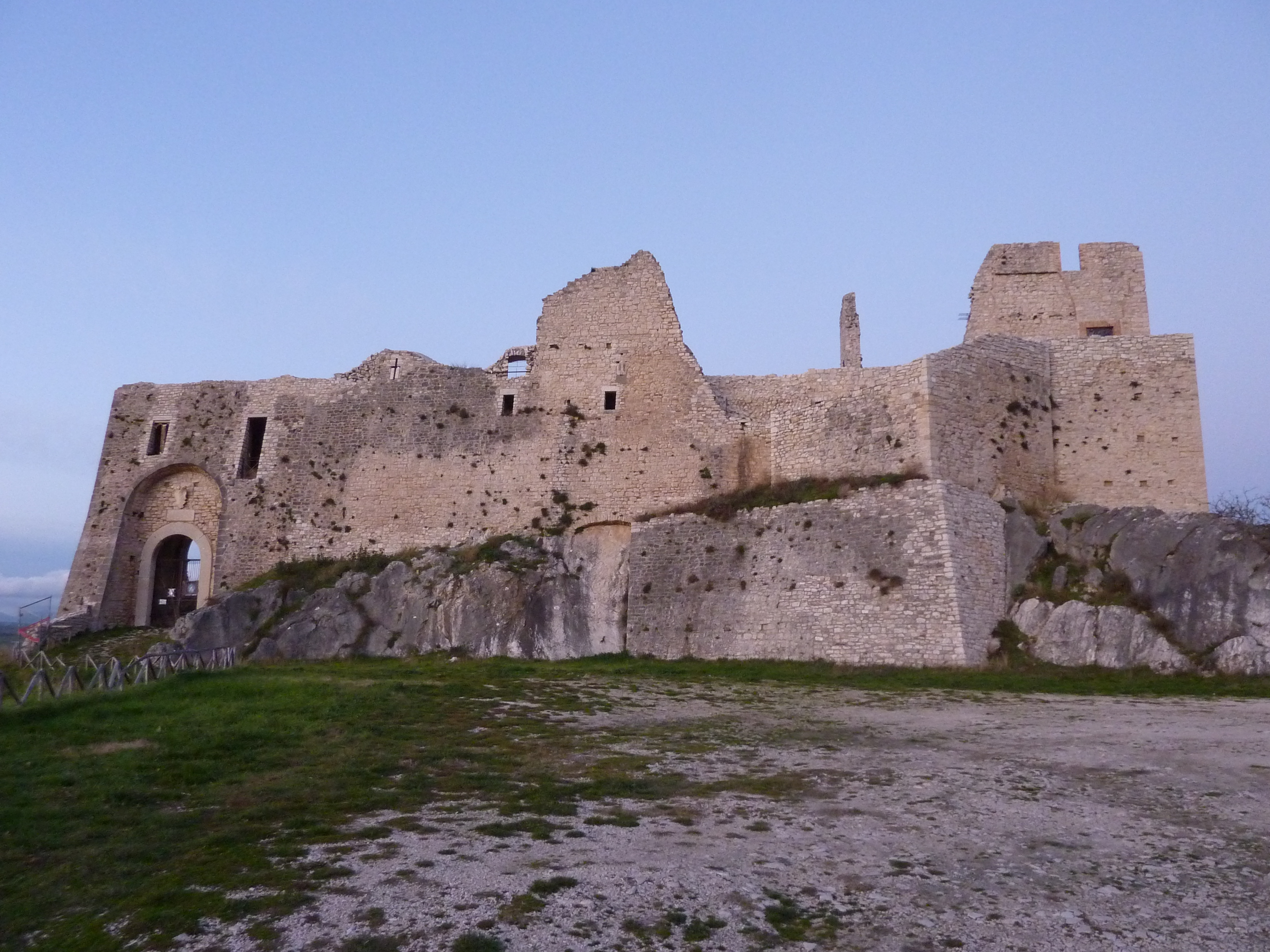 Castropignano: Castello d'Evoli